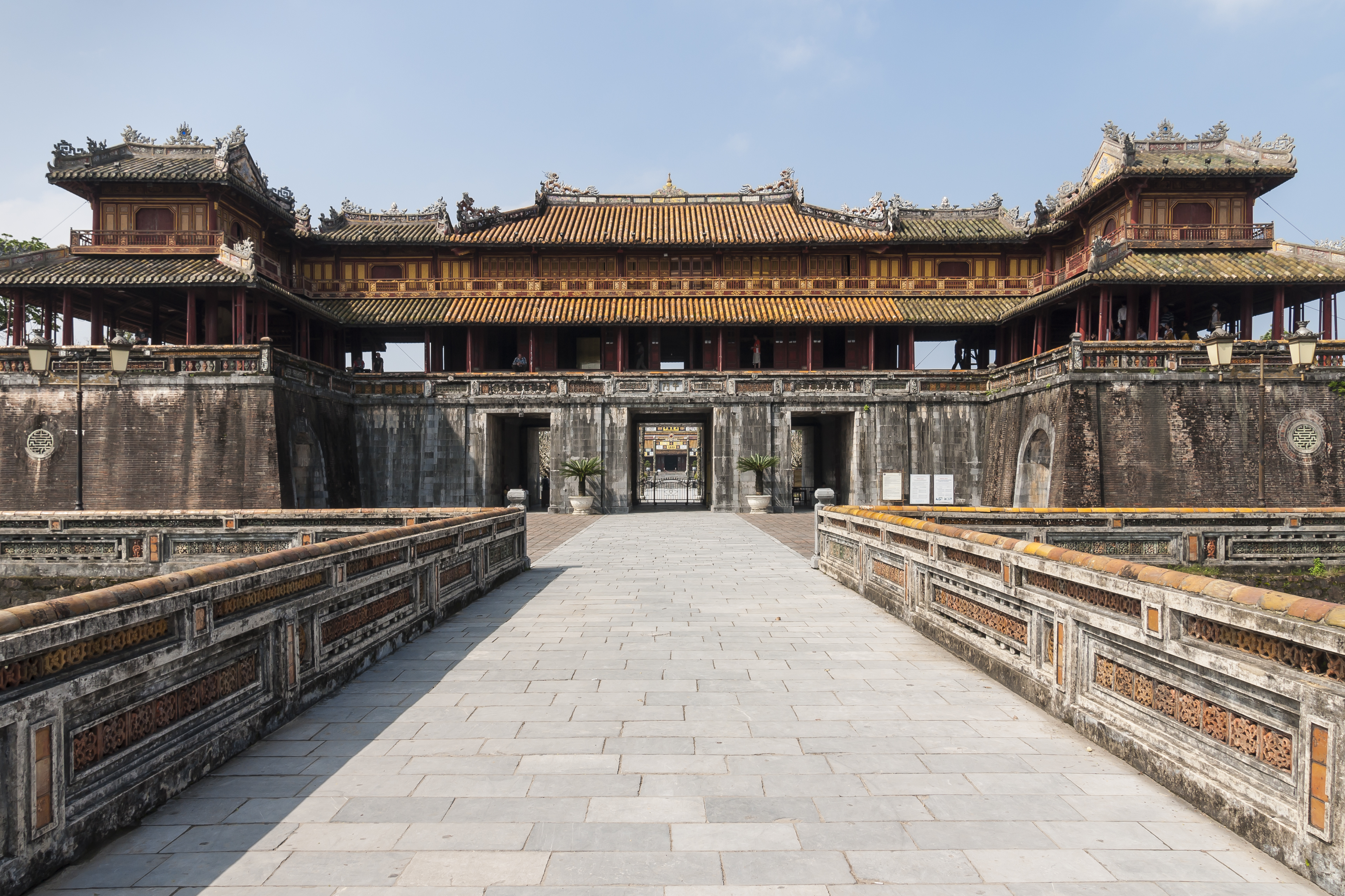 Hue, Vietnam: Main gate of Imperial palace in Hue